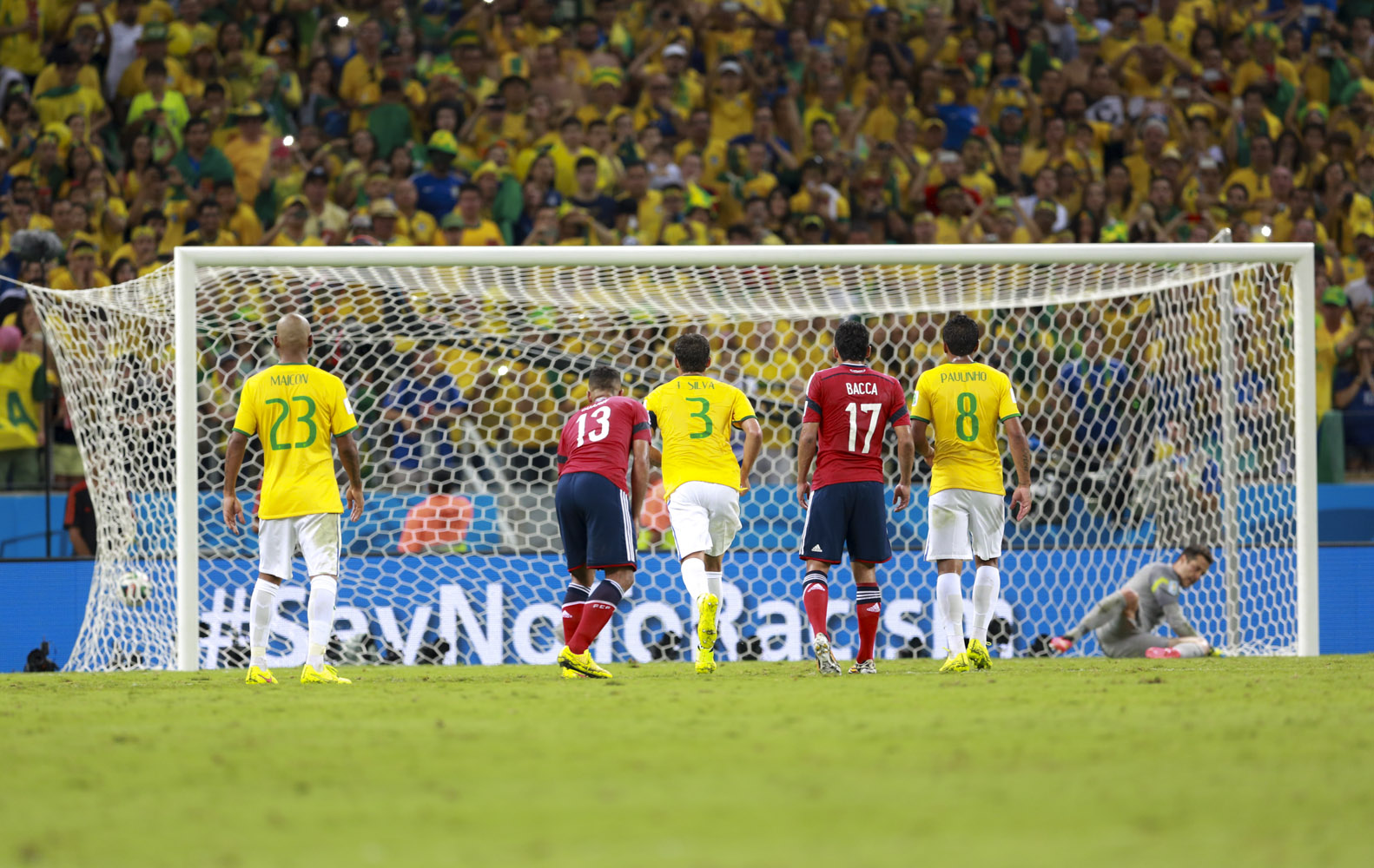 Brazil and Colombia match at the FIFA World Cup 2014-07-04